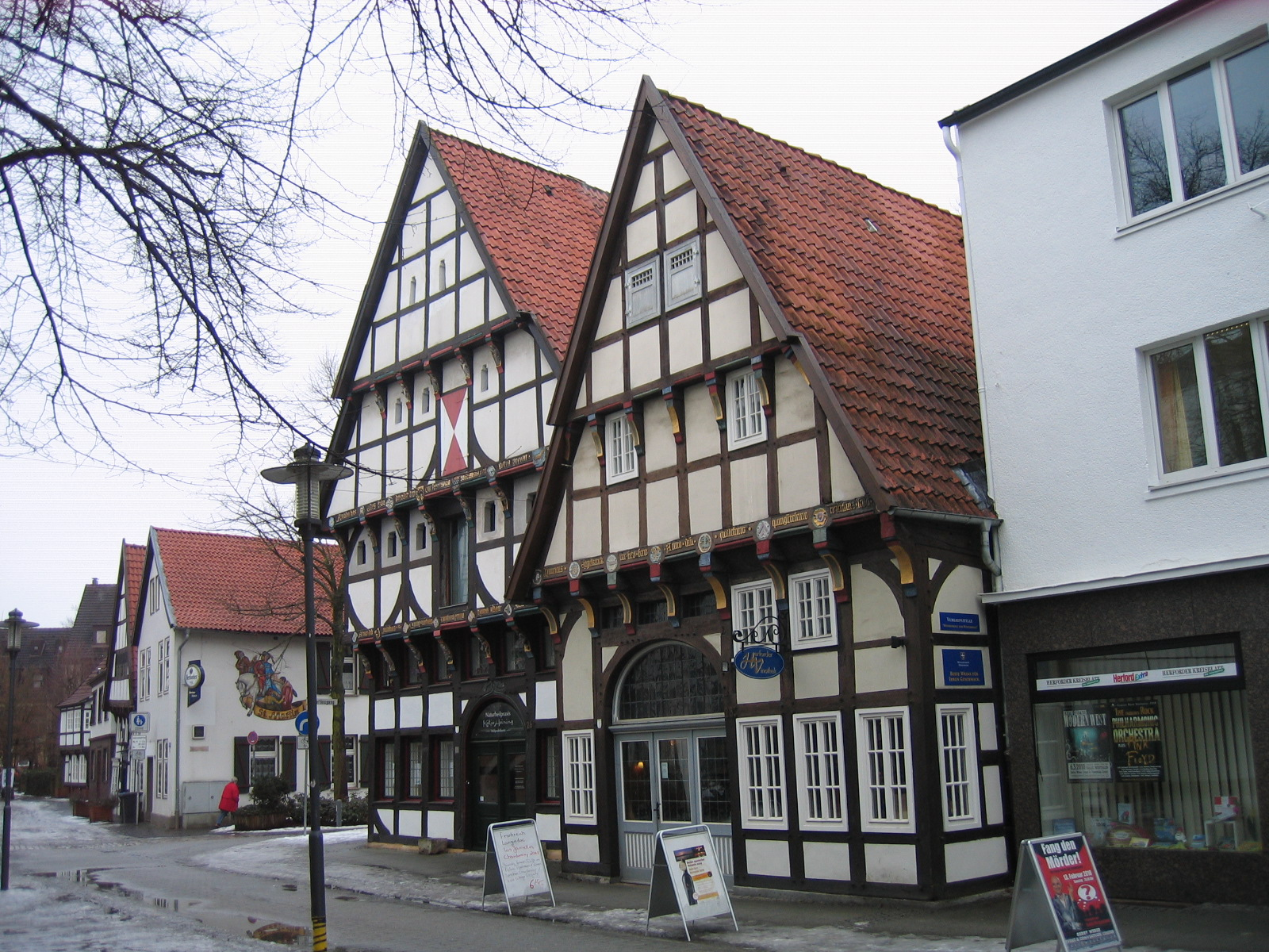 in Herford, District of Herford, North Rhine-Westphalia, Germany.